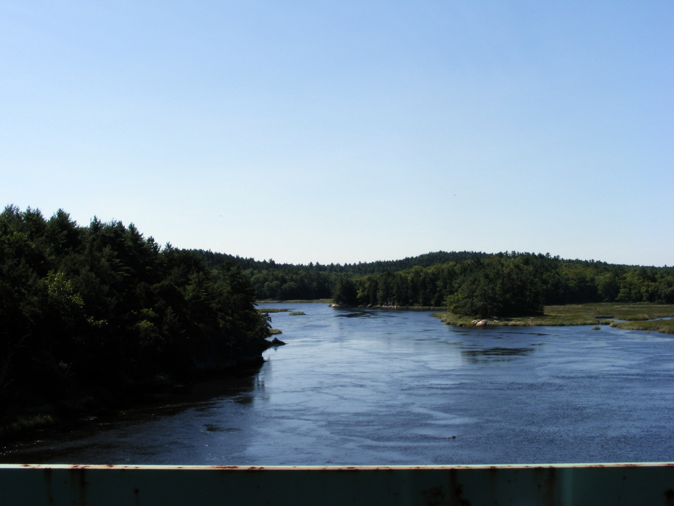 View from bridge over Back River (tributary of Kennebec River), Maine